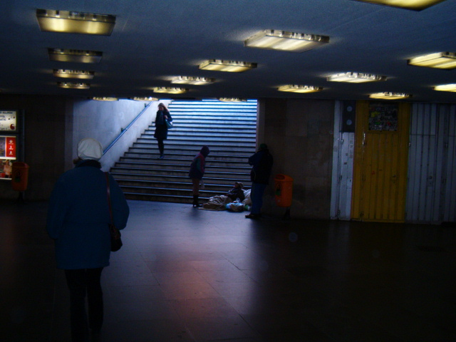 Deák-tér underpass, Budapest, Hungary, Sunday, around 5 o'clock. On the backstage, homeless people are lying. Photo taken by the Uploader. Free and shared to everyone, for all purposes. Gubbubu 19:57, 20 November 2005 (UTC)